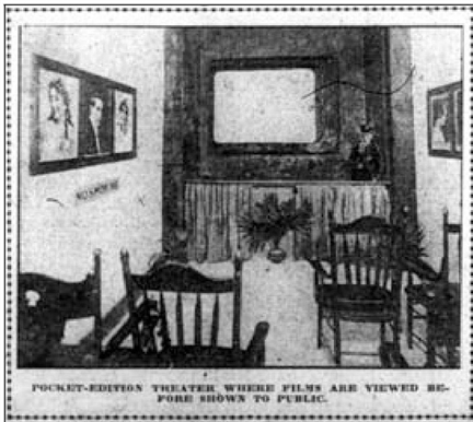 Movies were screened here before the public could view